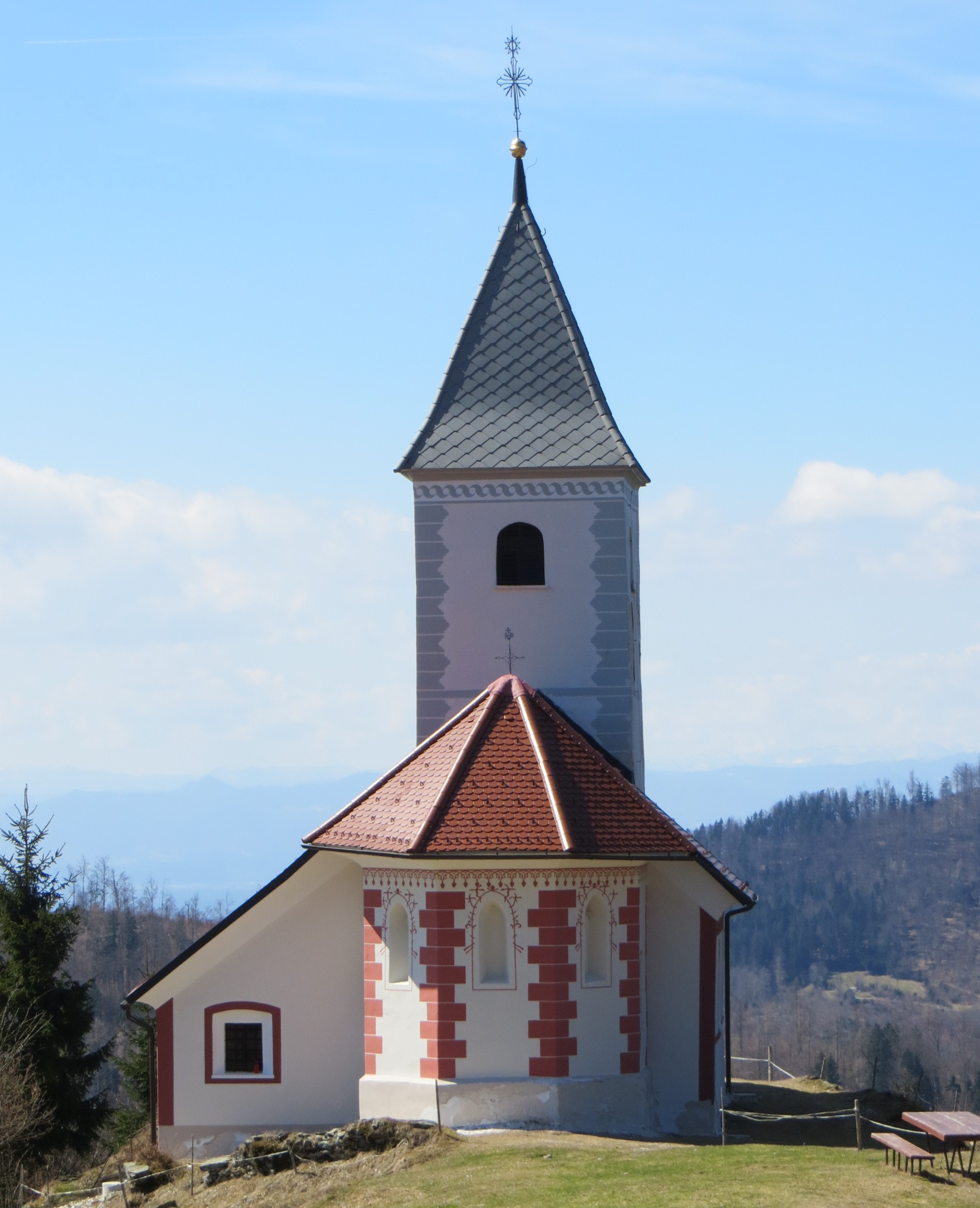 Saint Acacius's Church in Kališe, Municipality of Kamnik, Slovenia